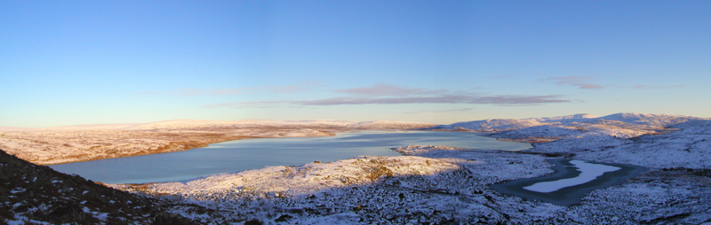 Lake Ailakkajärvi in Enontekiö